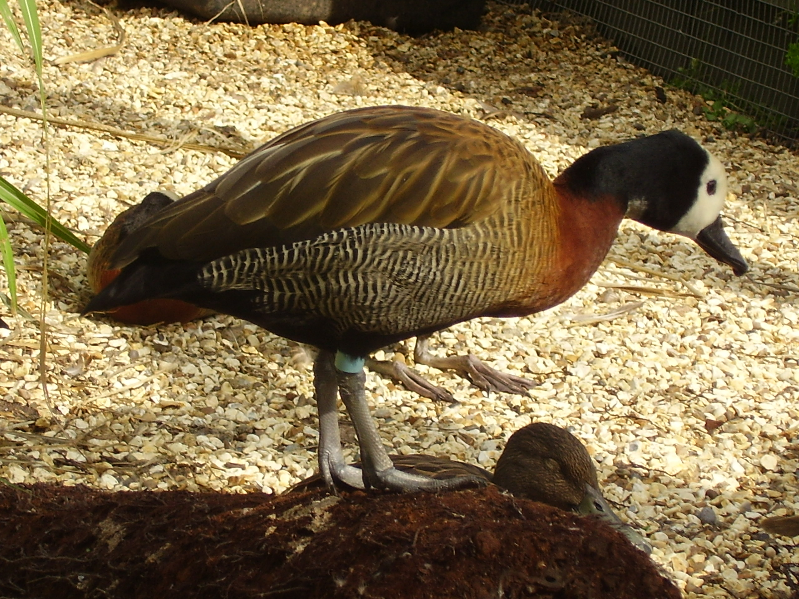 URL:Joshua O photos